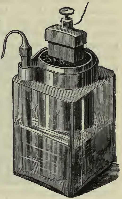 The Leclancé cell consists of a zinc rod to the left of the figure, immersed in a solution of ordinary sal ammoniac, and a plate of carbon put inside a porous pot, and packed tightly with a mixture of the needle form of manganese peroxide and broken gas-carbon. Both the mauganese peroxide and the gas-carbon must be sifted to remove the dust, in order that as much surface as possible may be exposed to the action of the liquid.